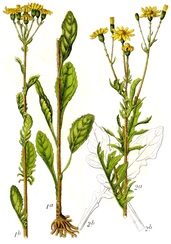 Senecio aquaticus Hill s. str., syn. Jacobaea aquatica (Hill) P. Gaertn., B. Mey. & Scherb. Original Caption Wiesen-Jakobskraut, Senecio aquaticus